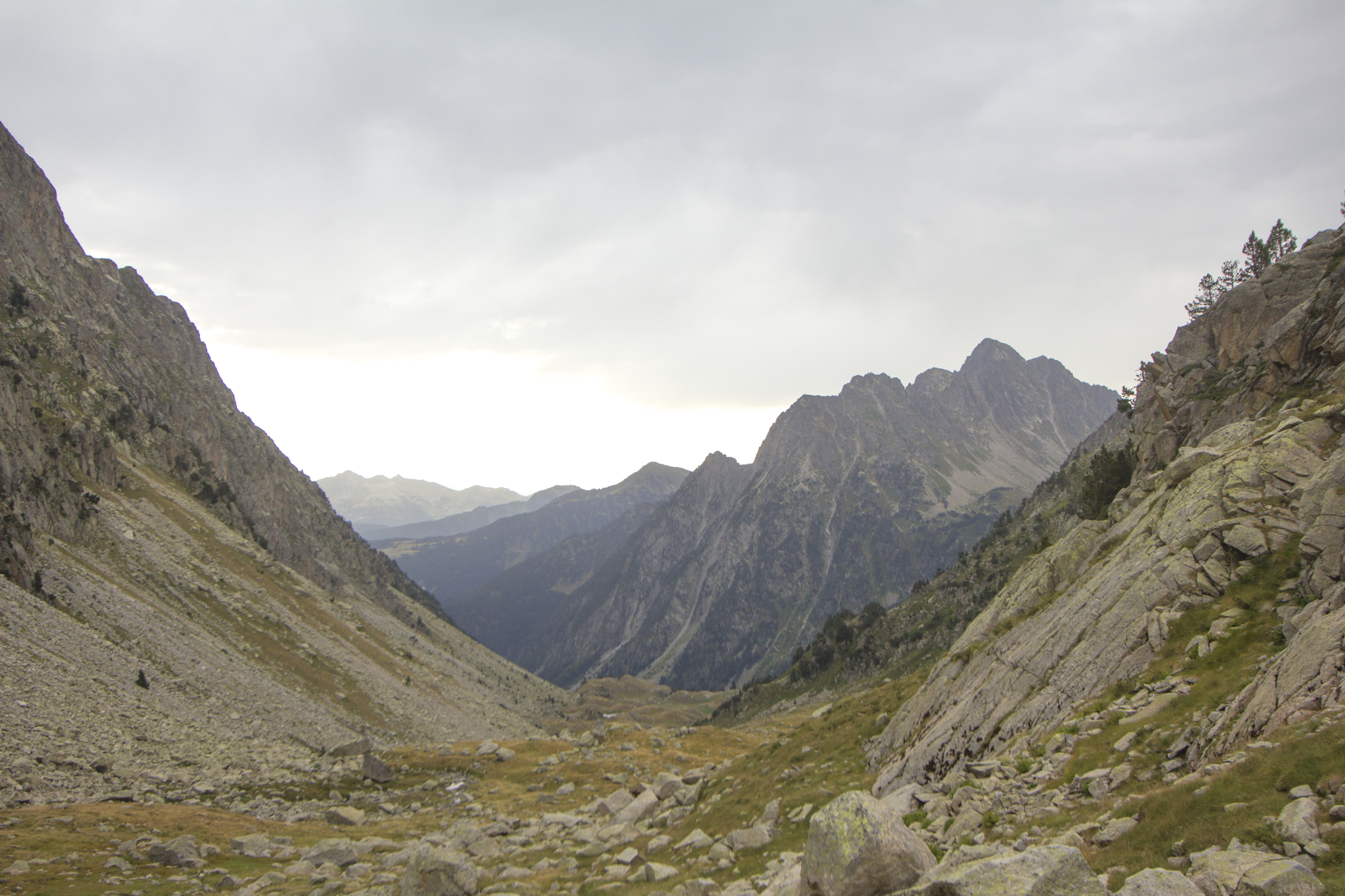 Rius valley (Catalan Pyrenees)